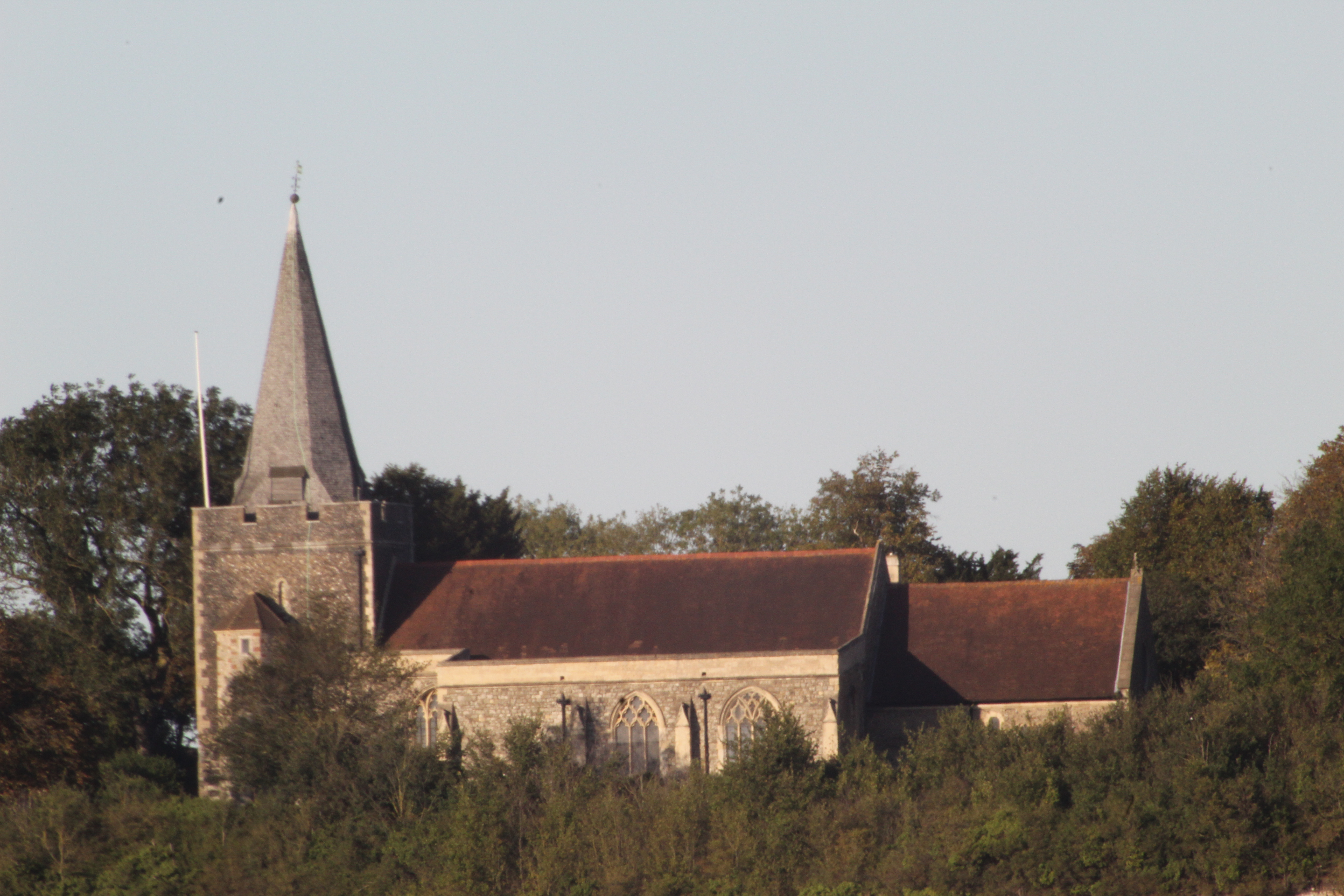 Taken from Rochester Castle with a 500mm lens